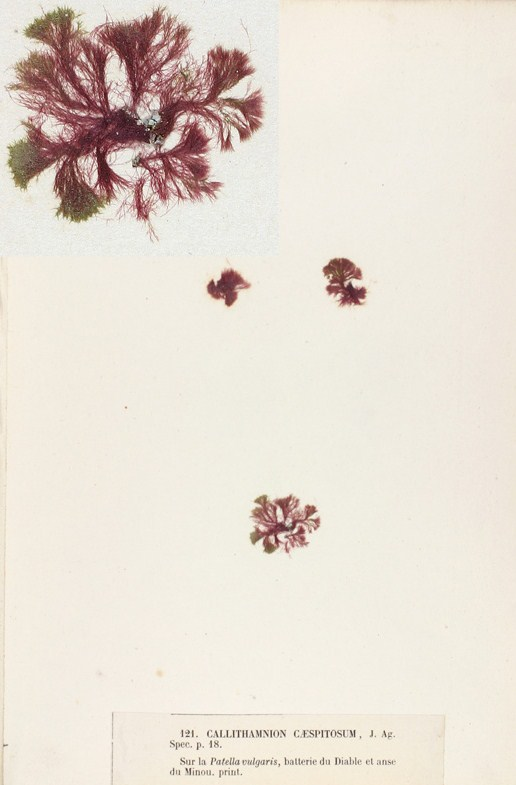 « Callithamnion caespitosum » = Colaconema caespitosum